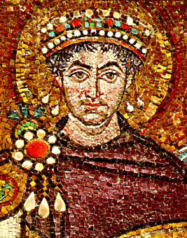 Mosaic of Justinian I, obtained from the Macedonia FAQ website, The mosiac itself is in the San Vitale church in Ravenna, Italy.